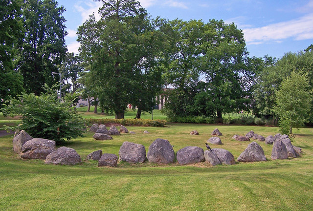 Raigmore Cairn Formerly known as Stoneyfield Cairn, this Clava-type cairn, dating from approximately 3,000BC, was relocated to its present position in winter 1974/5. This was done because the cairn happened to be inconveniently on the line of the about-to-be-built A9 dual carriageway. Since being moved, the cairn has had a difficult time, at one time being completely overgrown, and being used as a site for burning garden rubbish...! More information on the Highland Environmental Record website - and .